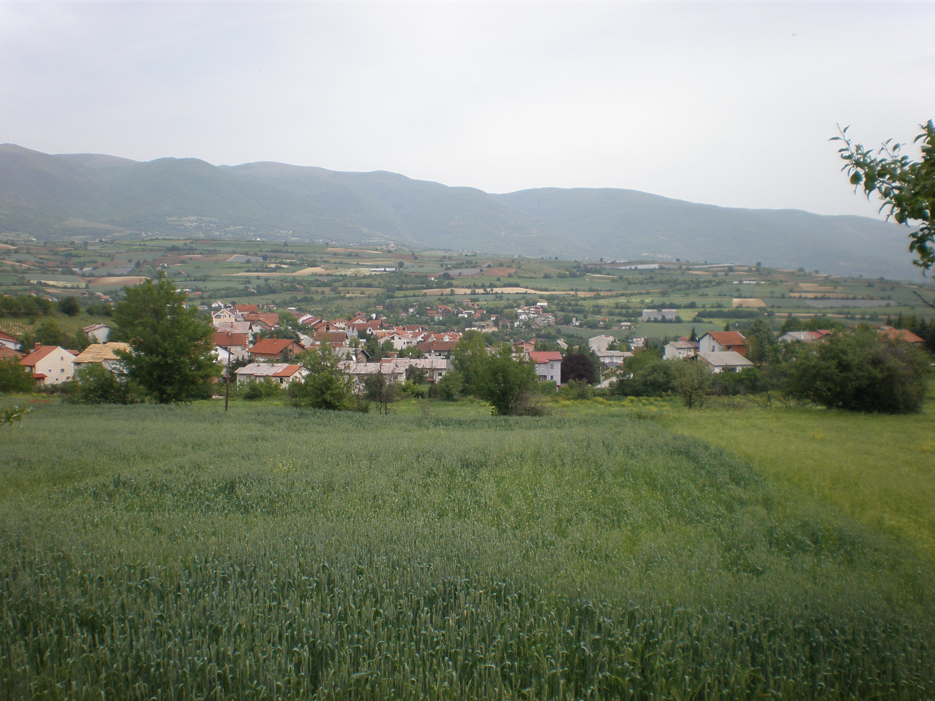 Radishani, Macedonia